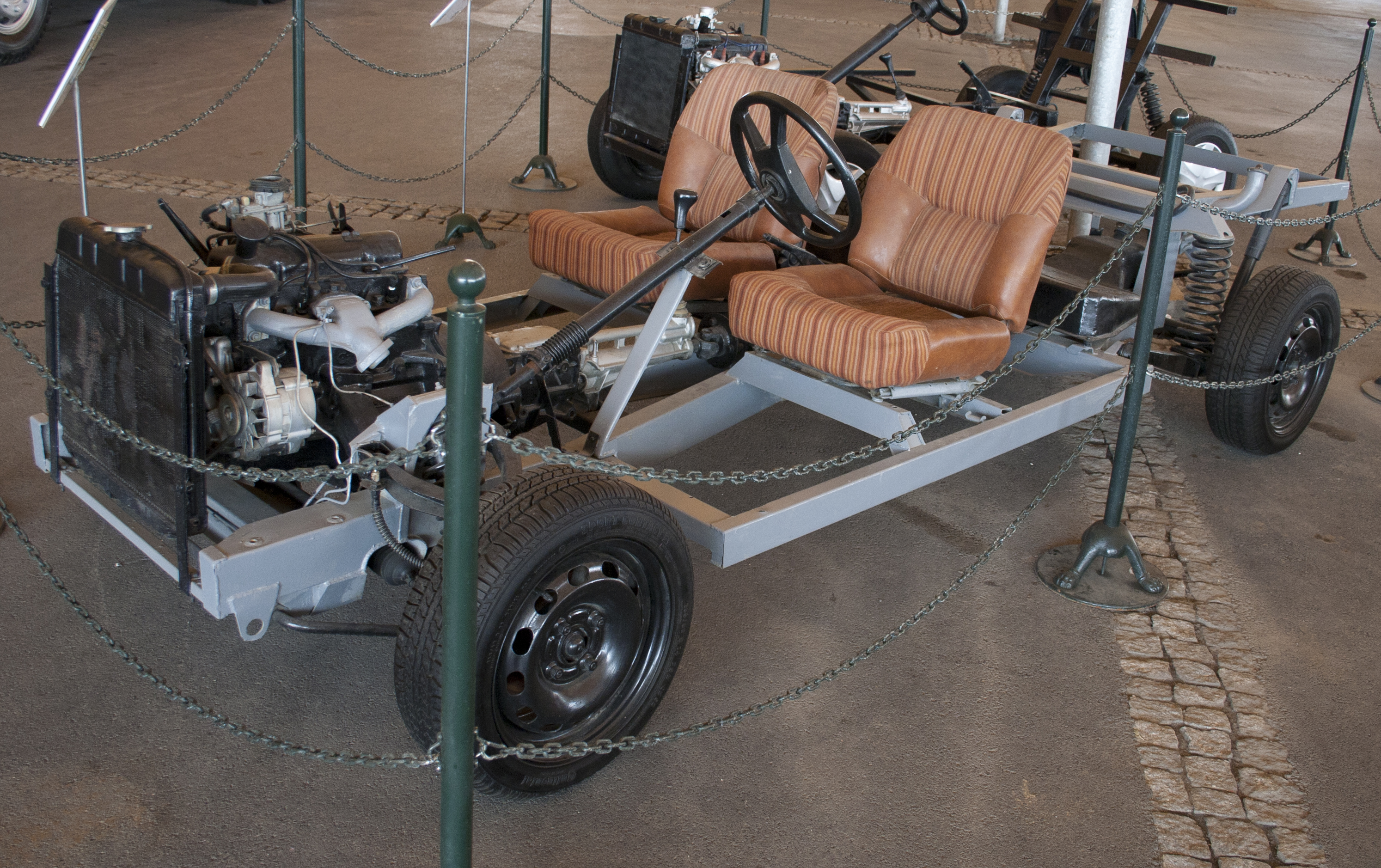 Anadol/Reliant FW11 chassis on display in the Rahmi M. Koç Museum of Transportation. The 1.6 litre Kent engine is an Otosan-built unit.